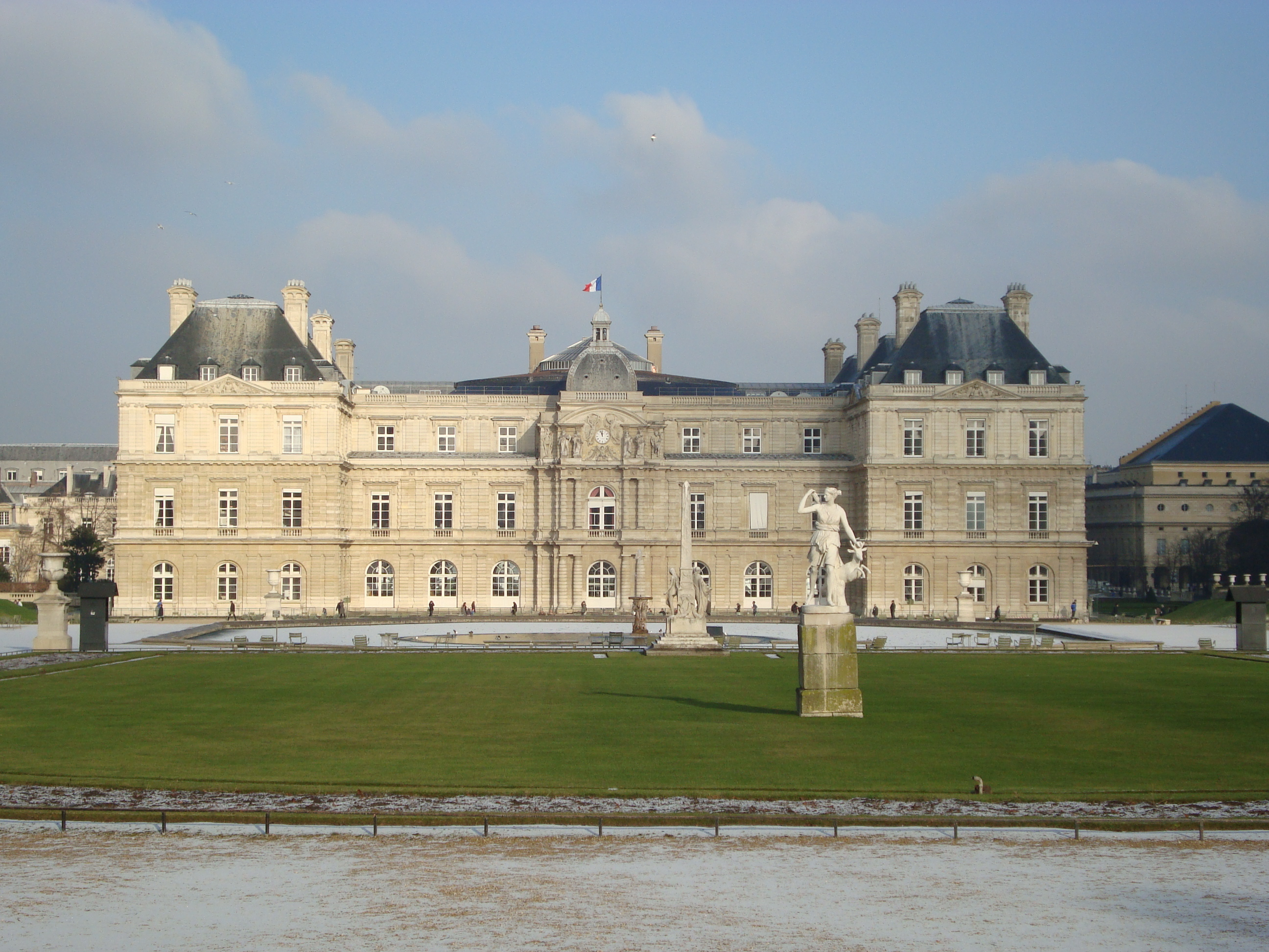 The Palais du Luxembourg in the homonymous park, in Paris, under the snow